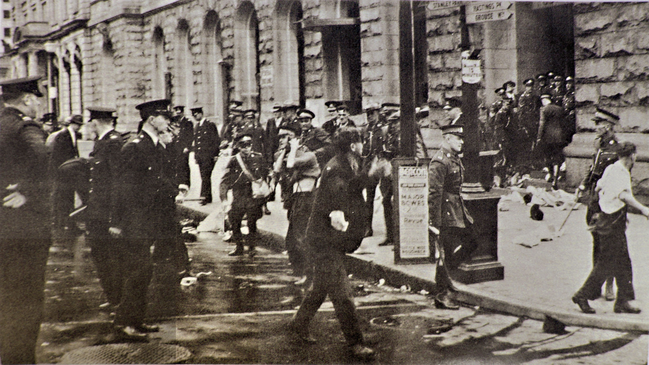 Post Office and Art Gallery sit down strike, May and June 1938. Policemen and R.C.M.P. evicting demonstrators from Post Office with tear gas.